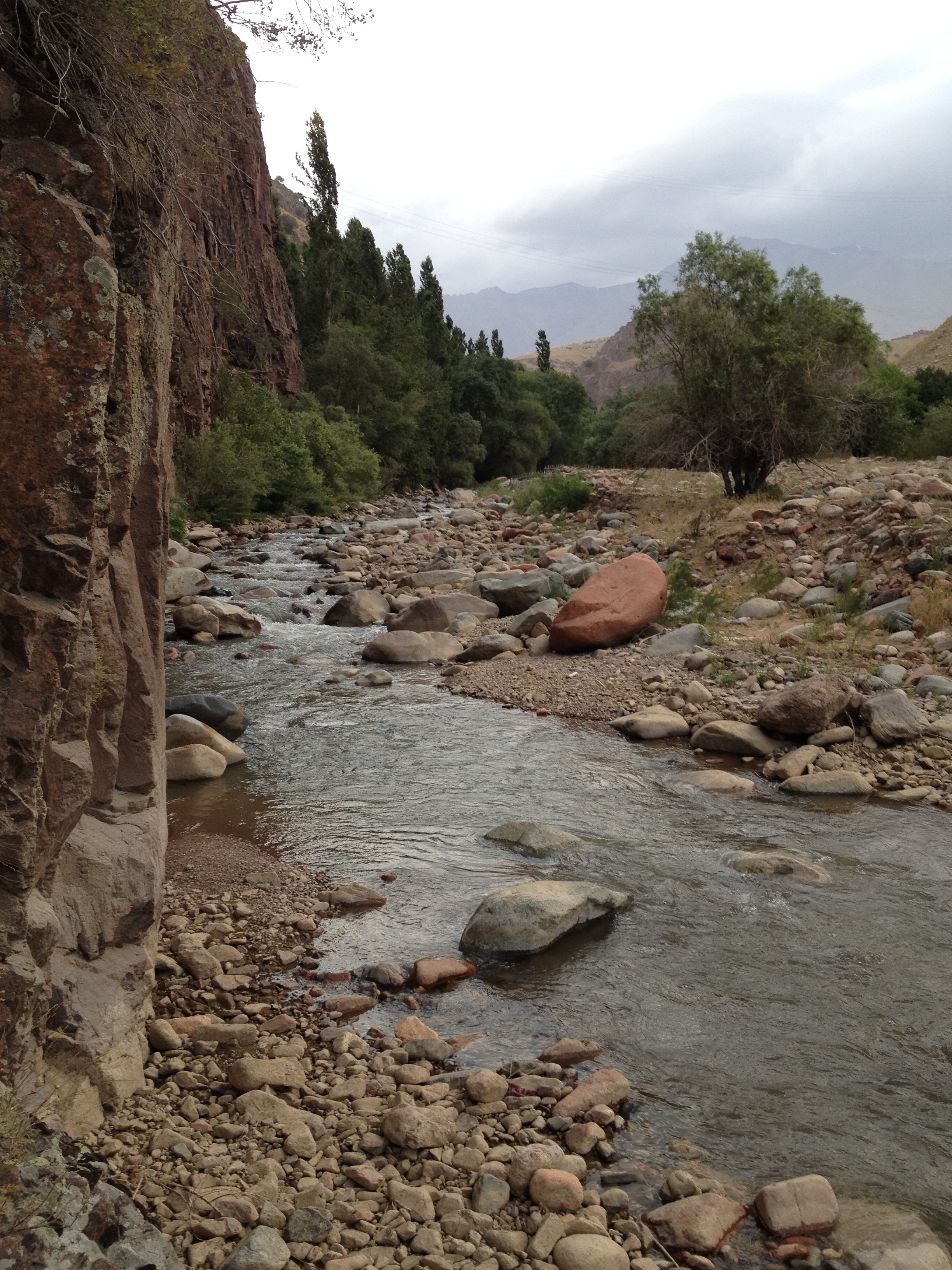 Ir-Tash river, right tributary of Angren river